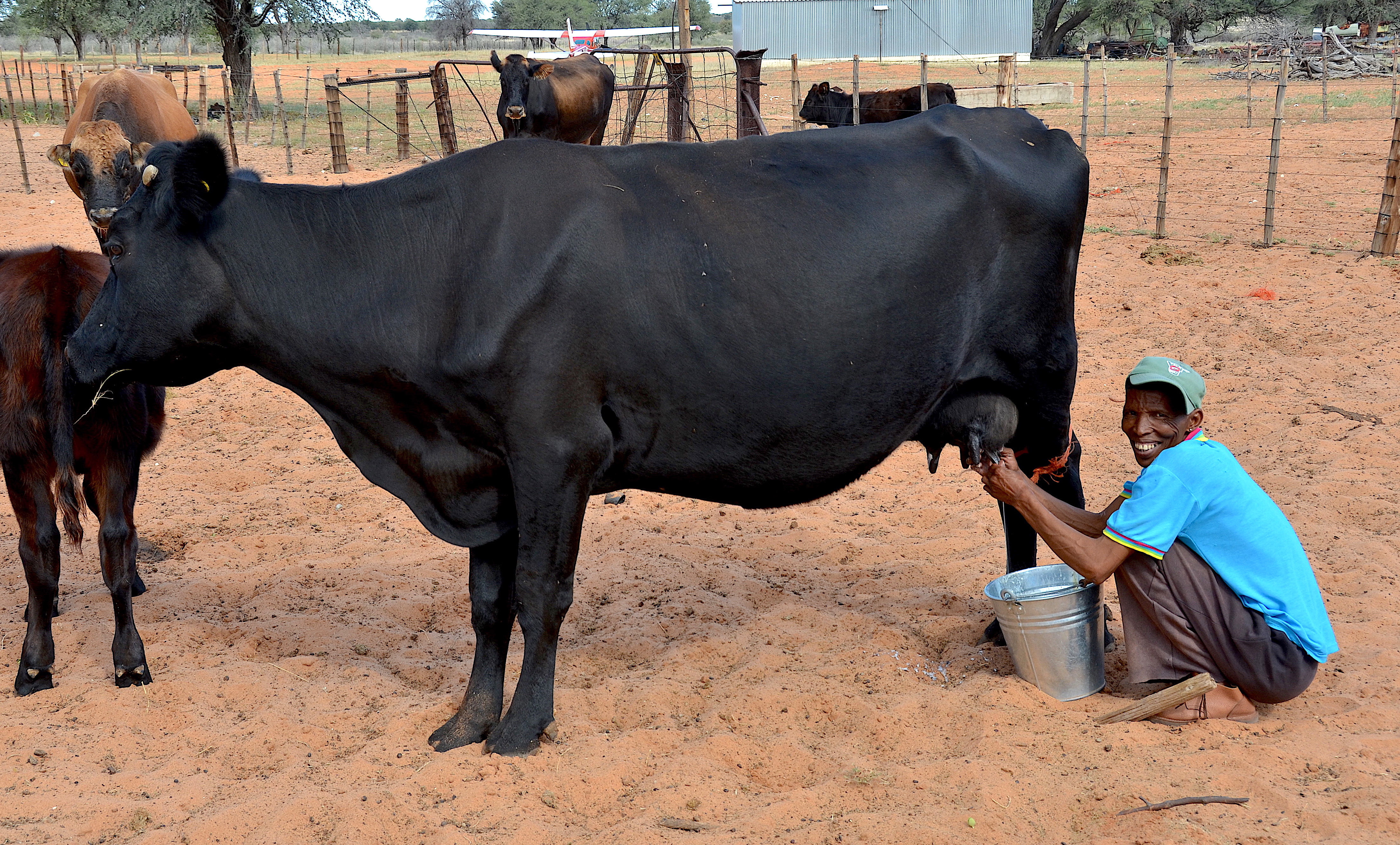 Milking a cow on Farm Gunsteling in Namibia (2017)